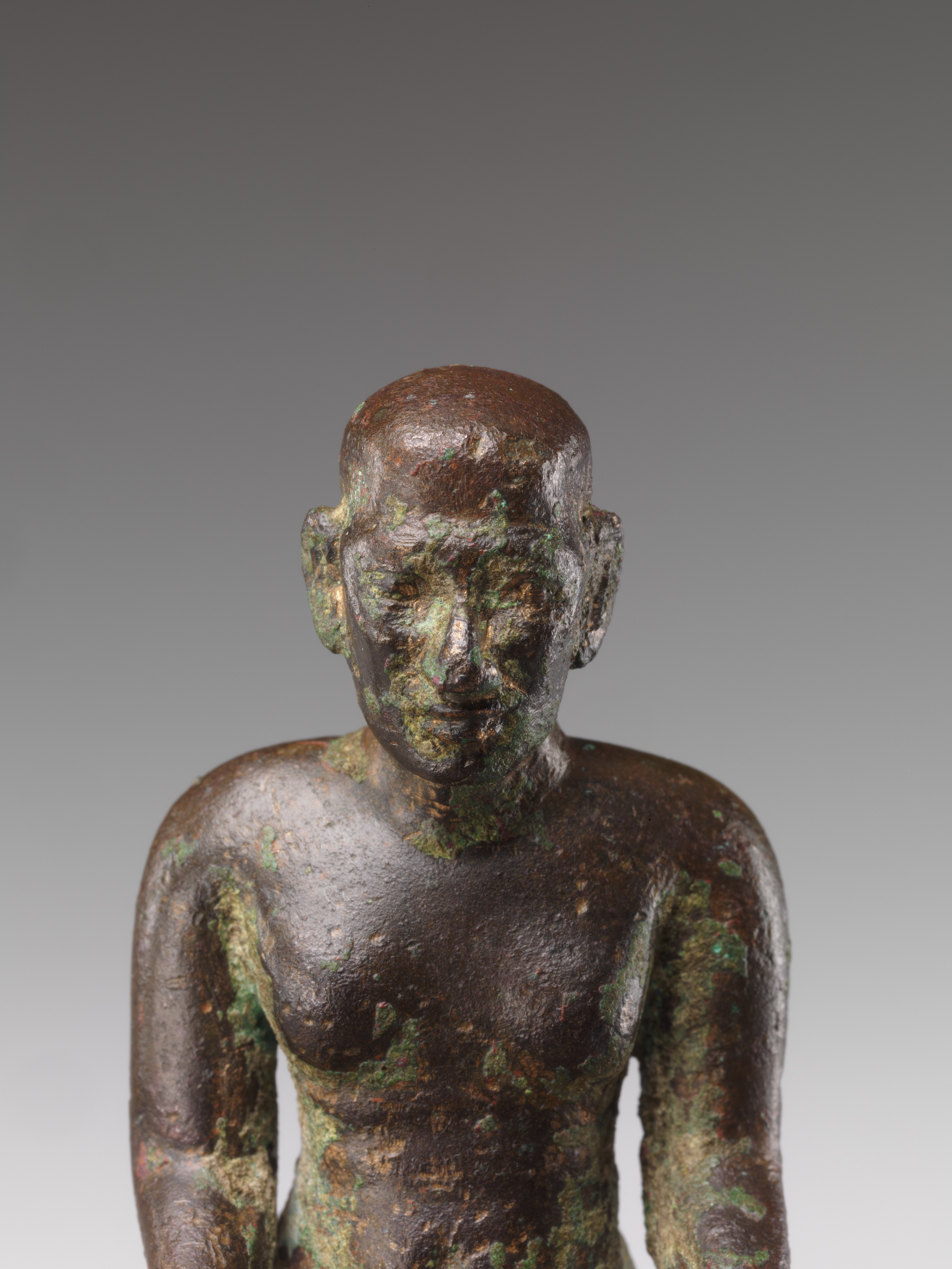 Statuette, scribe